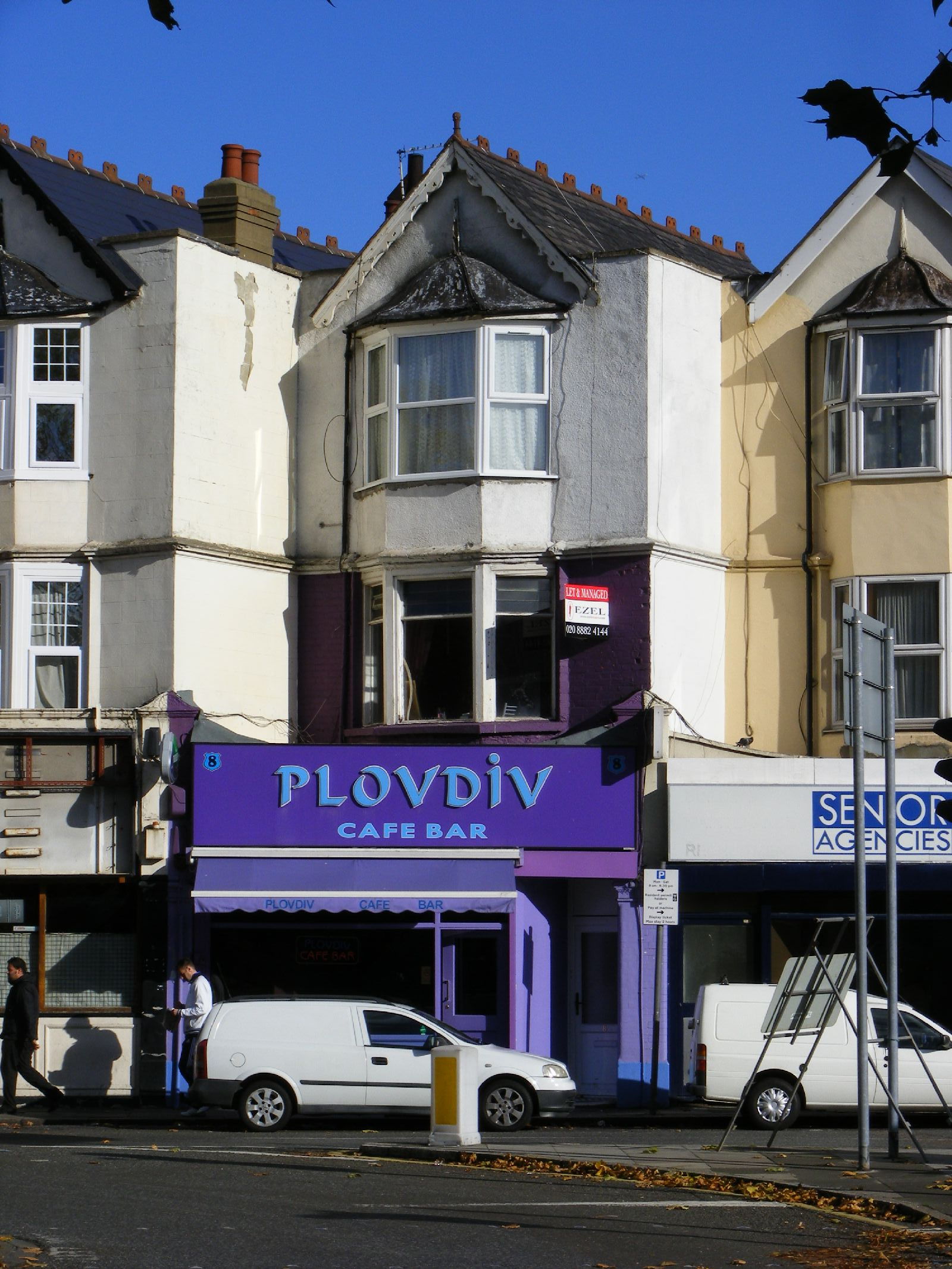 The Shop to the right was formerly a lightweight cycle shop in the 1950s of George Brookes. The Plovdiv Bulgarian cafe bar formerly spread into the right hand shop also.